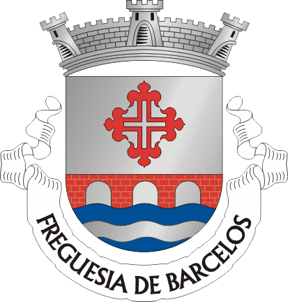 Crest of Barcelos, a parish in the municipality of Barcelos (Portugal)